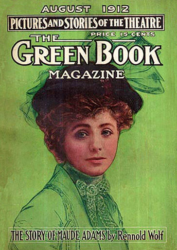 Cover of August 1912 issue of The Green Book Magazine, featuring a portrait of actress Maude Adams